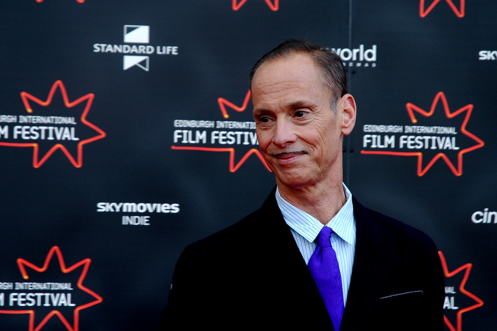 John Waters at the Edinburgh International Film Festival